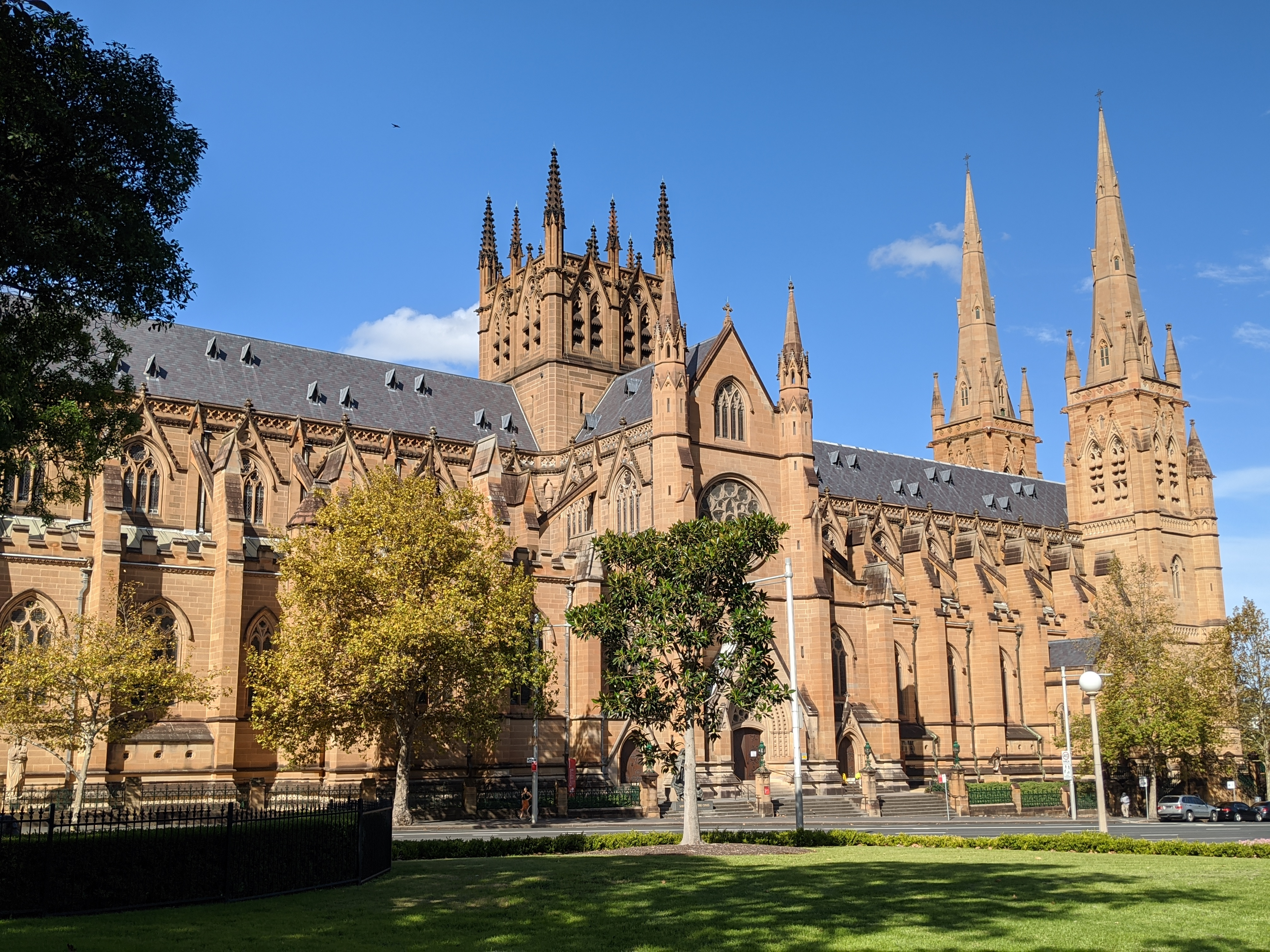 St Marys Cathedral Sydney